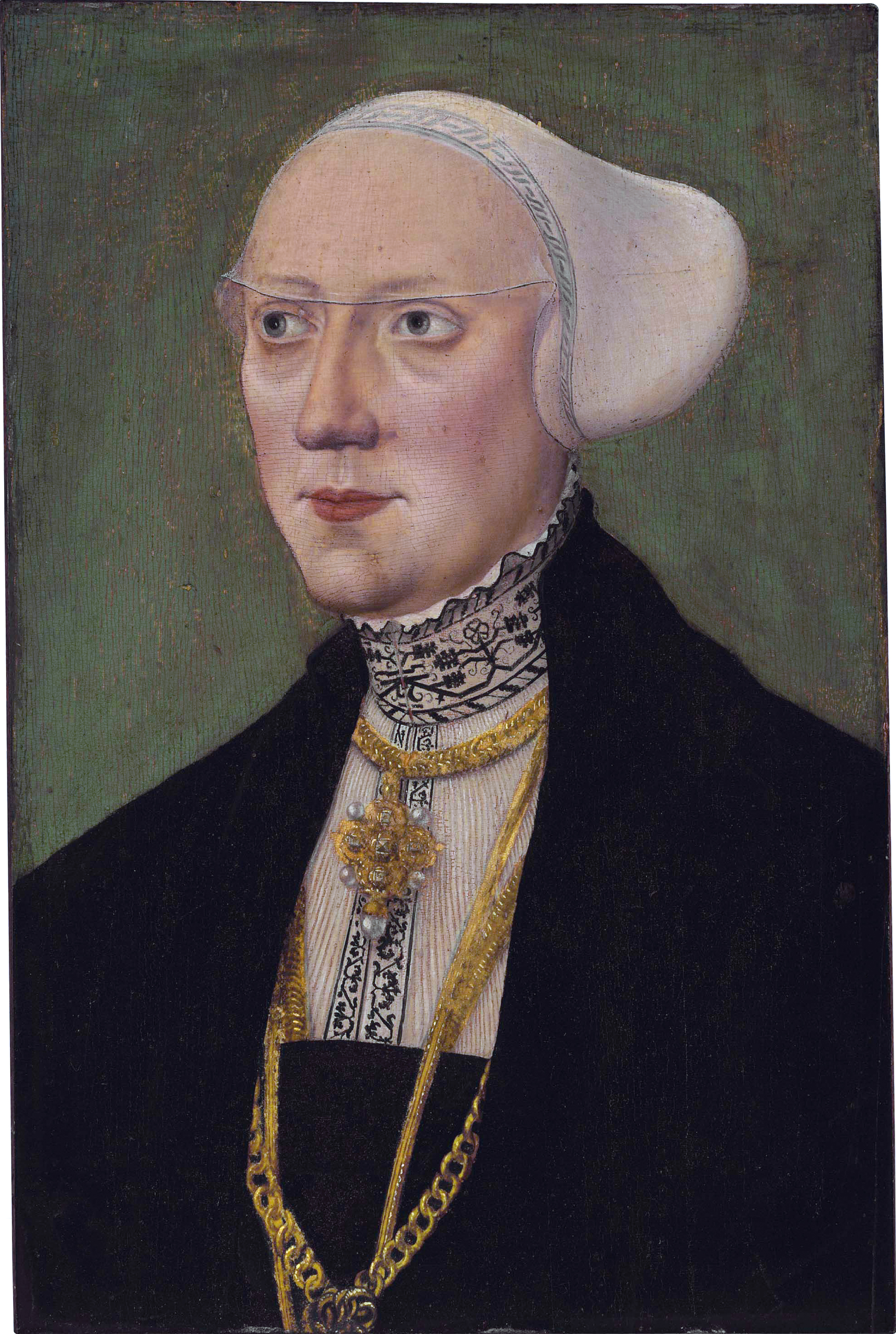 Maria Jacobäa von Baden, wife of Duke Wilhelm IV of Bavaria replica by Schöpfer after a lost original pendant to Schöpfers portrait of Duke Wilhelm, which sold at Neumeister Auktion, Munich, 1 July 1992, lot 334